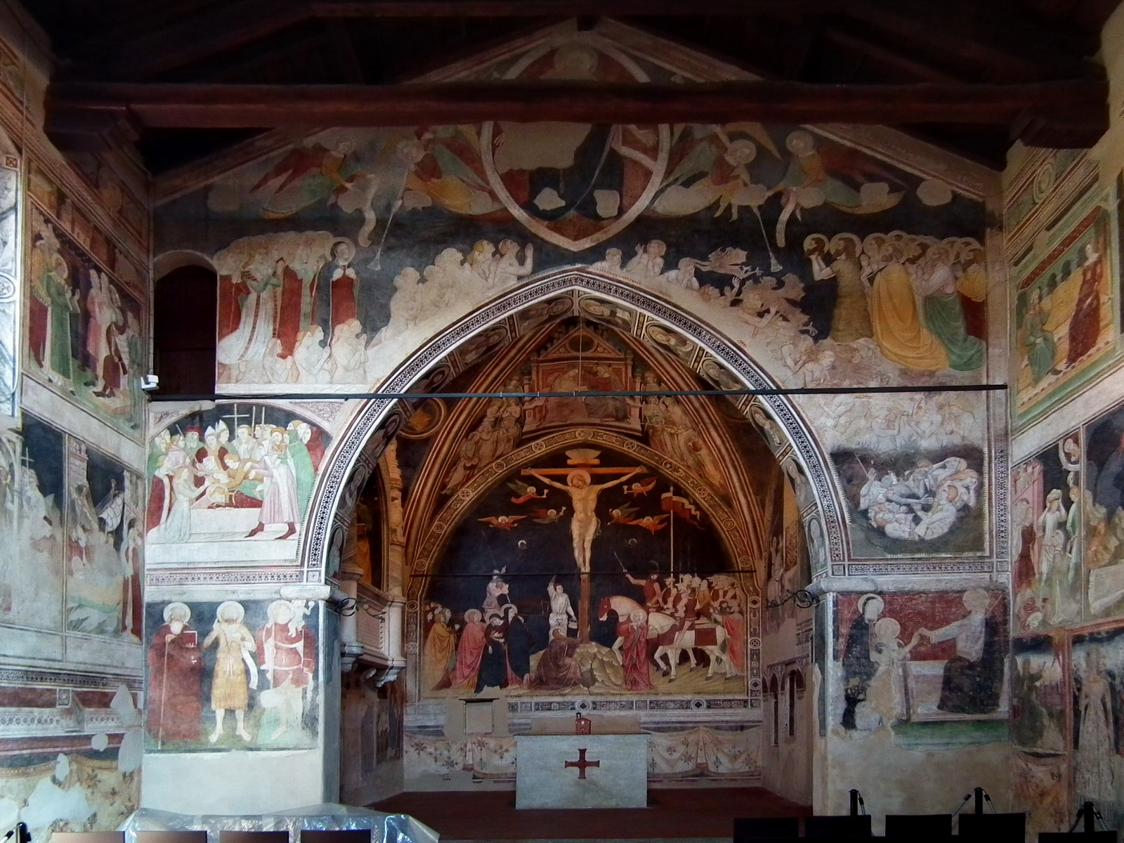 St Stephan Oratory, Lentate sul Seveso Native nameOratorio di Santo StefanoLocationLentate sul Seveso, Lombardy, ItalyCoordinates45° 40′ 42.45″ N, 9° 07′ 19.65″ E Established1369Web page control : Q3884882 VIAF: 132917749 LCCN: no2008167329 GND: 7615023-9 WorldCat institution QS:P195,Q3884882